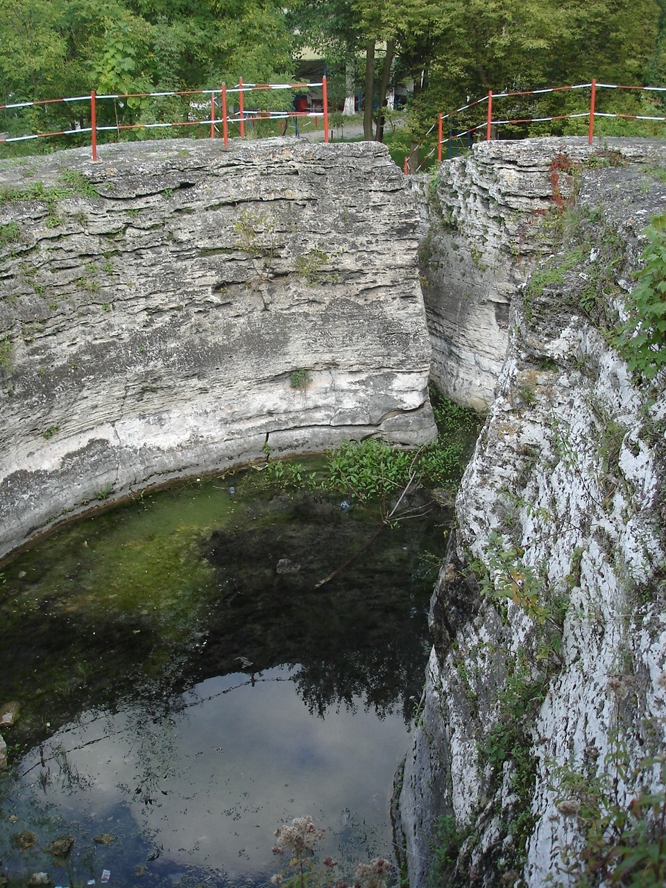 Photo (1) of ancient Roman spa, named "Aquae" by the ancient Romans, located in the town Călan, in Romania, now named "Băile romane din Călan", in Romanian language